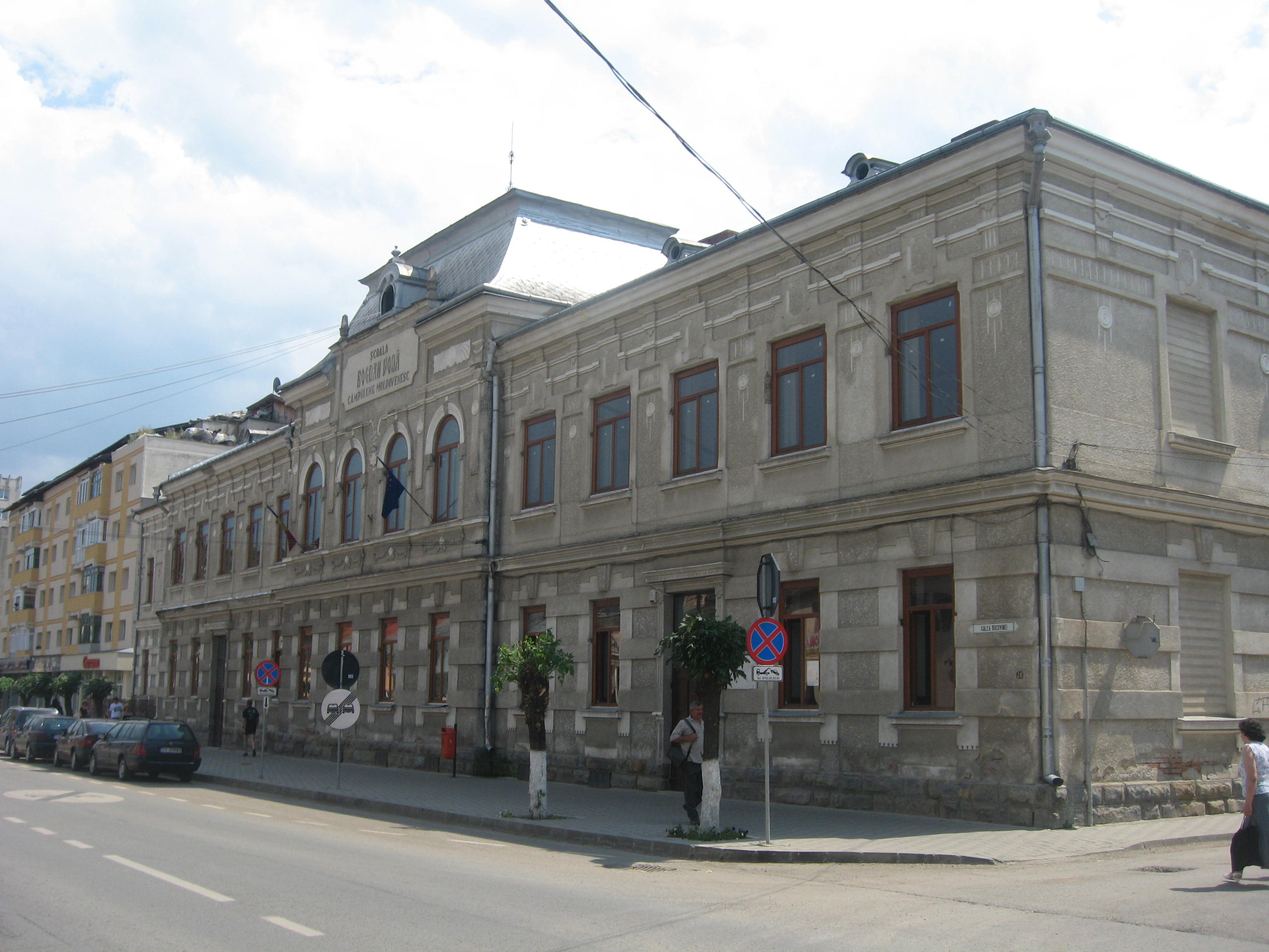 Bogdan Vodă School in Câmpulung Moldovenesc, Romania